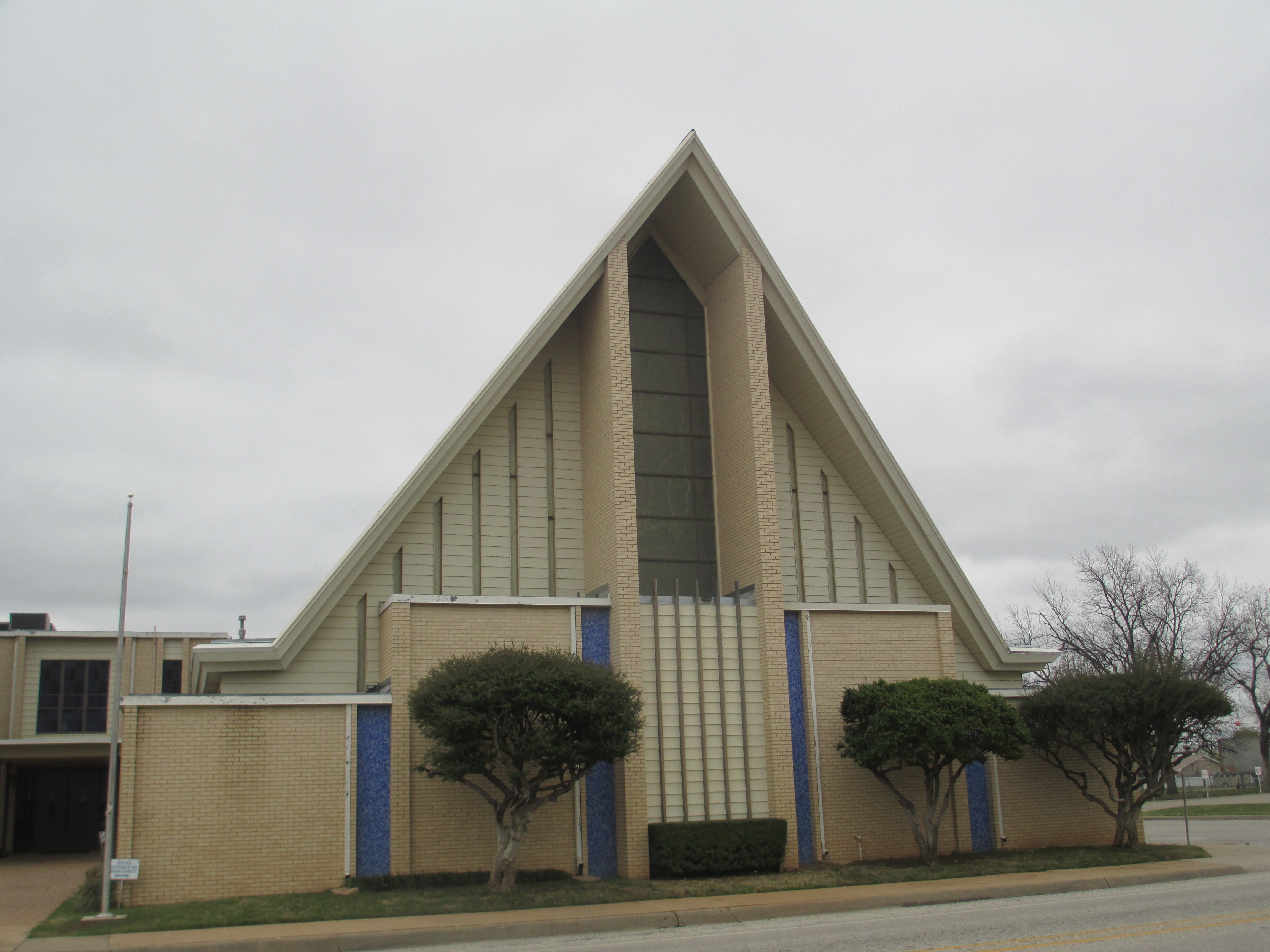 I took photo of First Baptist Church of Henrietta, TX, with Canon camera, April 4, 2013. Billy Hathorn (talk) 20:28, 11 April 2013 (UTC)